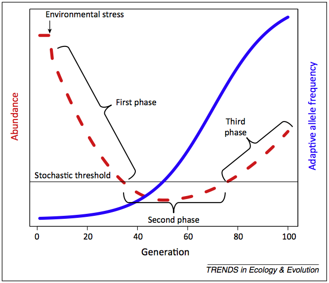 This image is used with permission from TREE (Trends in Ecology and Evolution) (